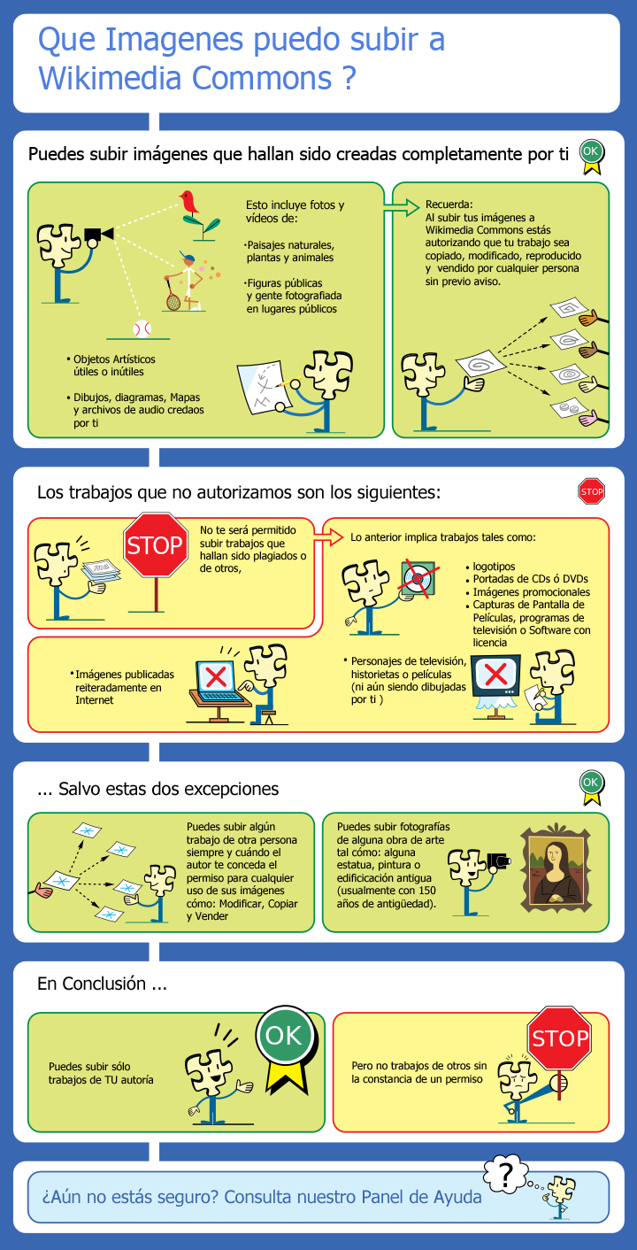 Wikimedia commons instructions in Spanish language